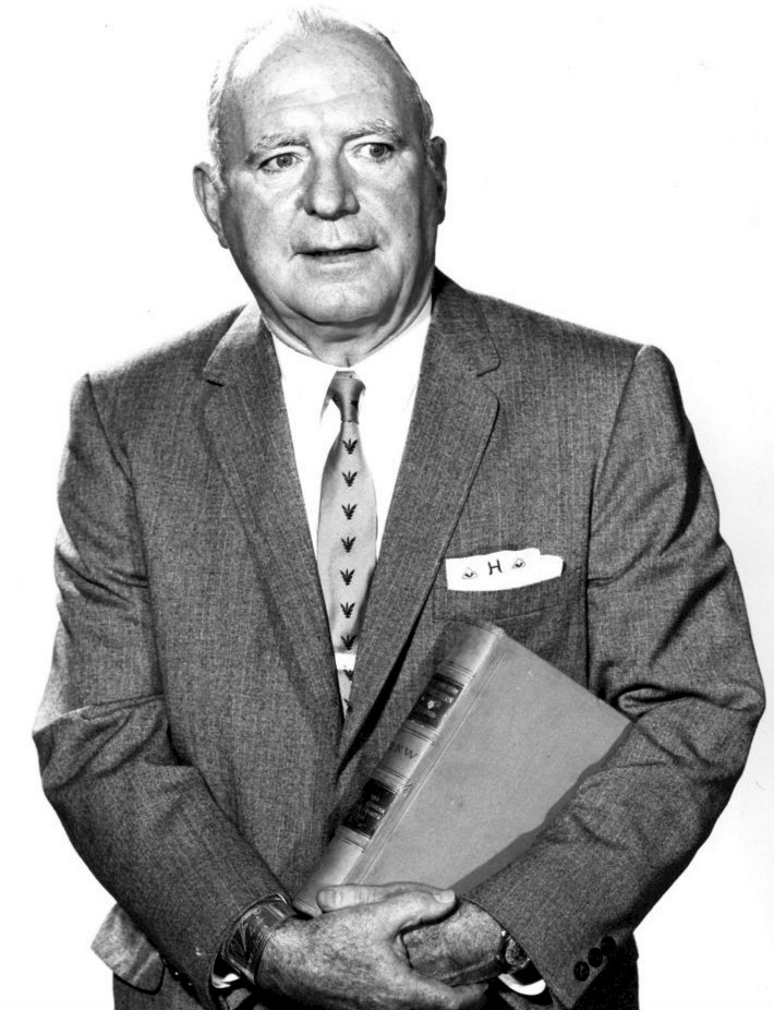 Photo of Pat O'Brien as James Harrigan, Sr. from the legal situation comedy Harrigan and Son.